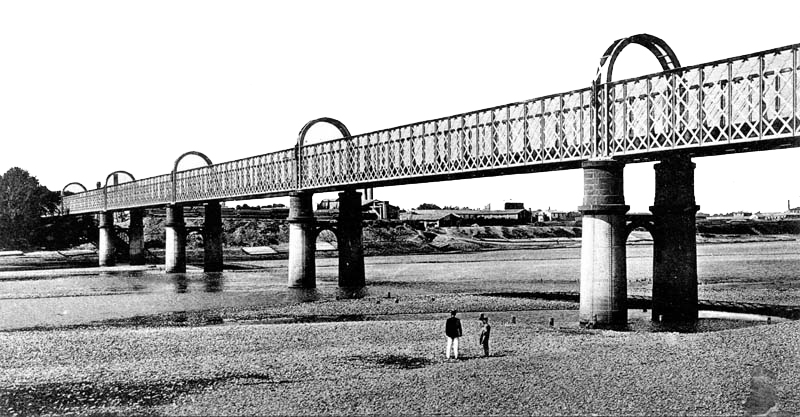 La Almozara's bridge in Zaragoza circa 1880s from Zaragoza Local Archive. Via Luis de Lezáun